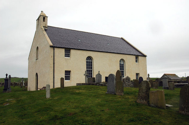 St Peter's Kirk, Sandwick. St Peter's stands on the north side of the Bay of Skaill. The kirk was built in 1836 on the site of an older one.